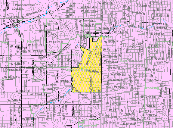 U.S. Census 2000 reference map for Mission Hills